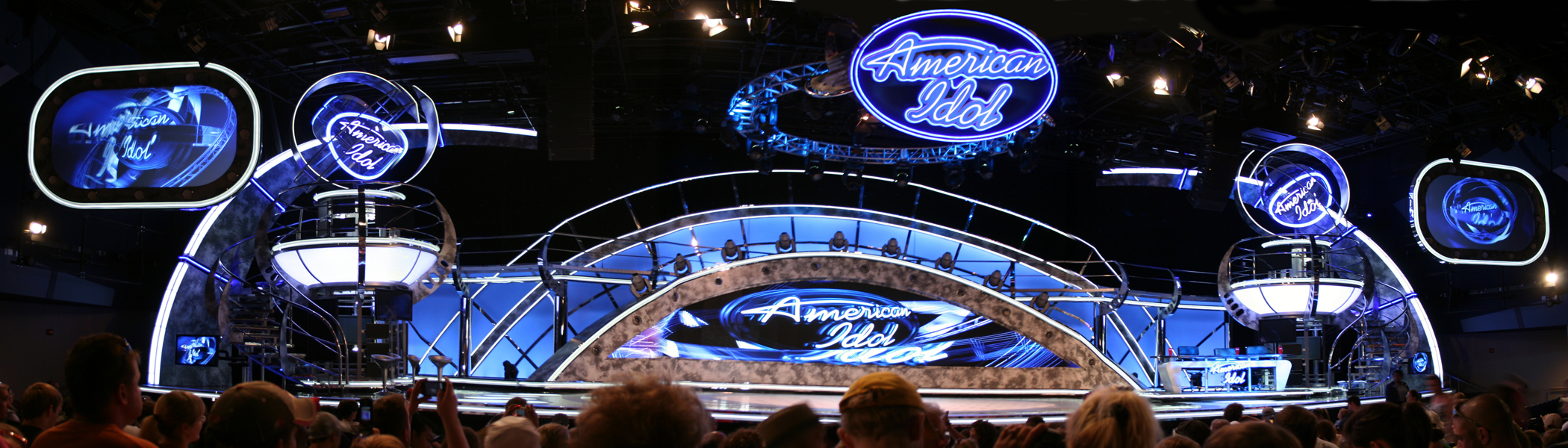 panoramic photo of the American Idol Experience stage at Disney Hollywood Studios in Walt Disney World, stiched together from 6 individual photos.